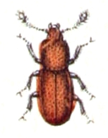 Aglenus brunneus, from Calwer's Käferbuch, Table 14, Picture 34. Taxonomy was updated to 2008, using mostly the sites Fauna Europaea and BioLib. Please contact Sarefo if the determination is wrong!